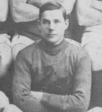 A photograph of Charles Doig, an Australian rules footballer.